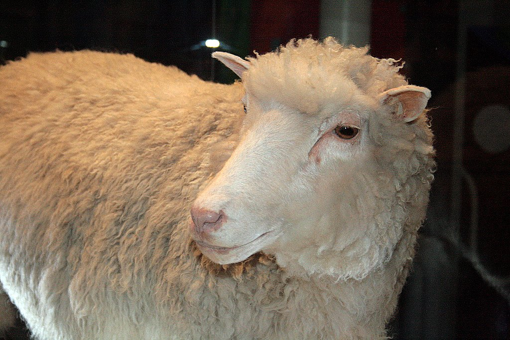 A close-up of Dolly in her stuffed form.